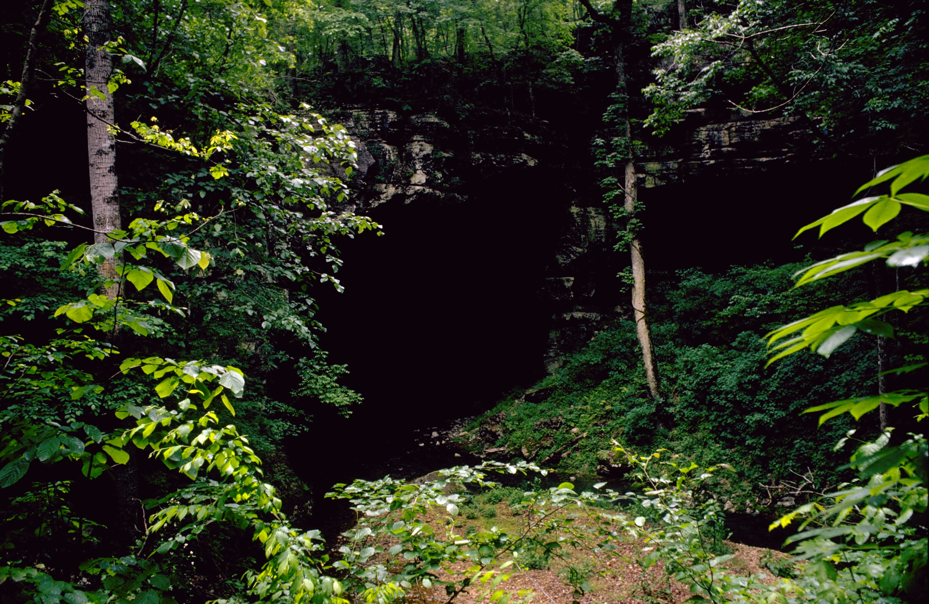 Russell Cave National Monument, Alabama, USA. One of the many entrances to the cave.